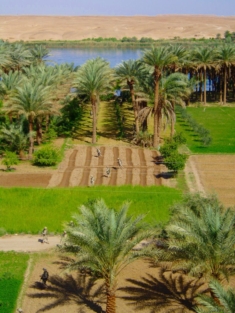 Marines conducting searches through fields and such. The Euphrates River is in the background